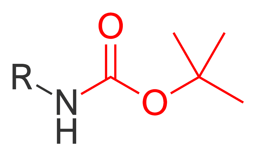 General amine protection with Boc